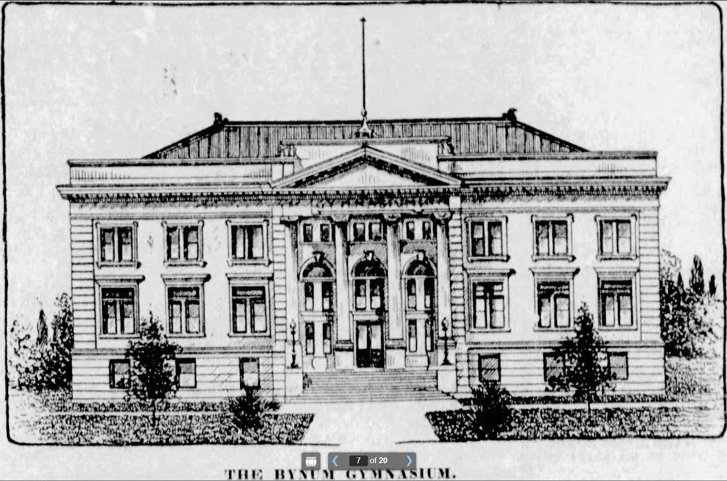 A drawing of the proposed Bynum Gymnasium from July 1904 in The Charlotte Observer